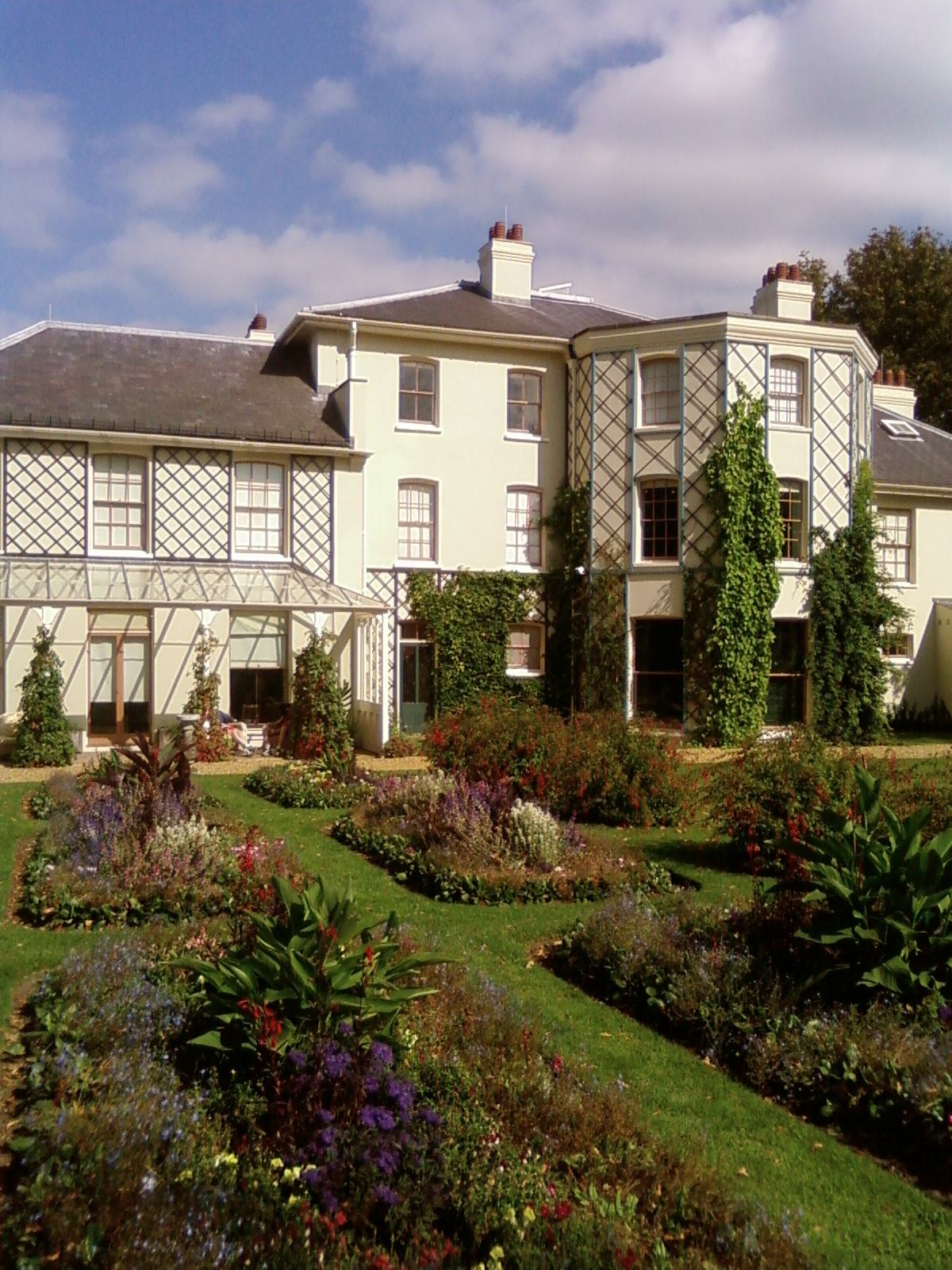 My own photograph of Down House.